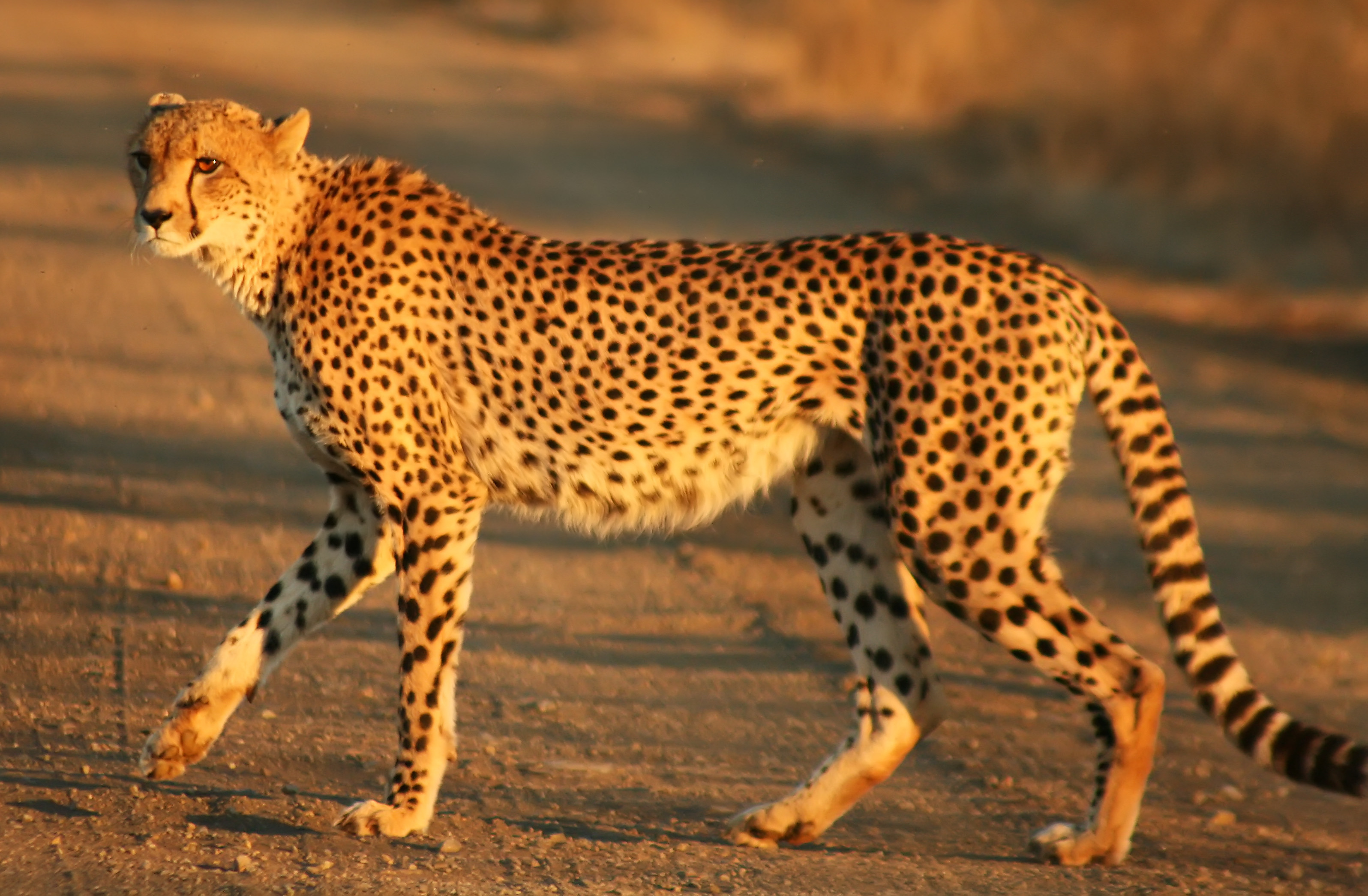 A cheetah on the S-28 at Lower Sabie, Kruger National Park (South Africa)